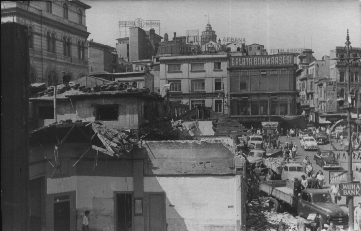 Under the leadership of Adnan Menderes, the Democrat Party introduced the law “Public Works and Confiscation” in 1956, within the scope of the İstanbul Zoning Project. This extensive zoning program was presented as a solution to the excessive traffic problem in the city, to provide public spaces around historic building, and to enable the restoration of monumental buildings. The project design included large boulevards that would pass through historical areas such as Kemeraltı Street between Karaköy and Tophane. Karaköy was transformed by the connection of its six main streets to one square, with historical buildings such as Old Borsa Inn and Merzifonlu Kara Mustafa Paşa Mosque, designed by Raimondo D’aronco, being eradicated. Ultimately the implimentation of this law led to the dereliction of more than ten thousand buildings. SALT Research, Photography Archive and Ali Saim Ülgen Archive Adnan Menderes liderliğindeki Demokrat Parti hükümeti, 1956’da İstanbul İmar Projesi kapsamında yeni bir imar kanunu, bir süre sonra da istimlak kanunu çıkardı. Geniş kapsamlı bu imar operasyonuna gerekçe olarak, kent içi trafiğin rahatlatılması, meydan ve camilerin çevrelerinin açılması ve dinî yapıların restore edilmesi gerekliliği gösterildi. Tarihsel dokunun yoğun olduğu yerlerden geçecek geniş bulvarların öngörüldüğü proje için, aralarında tarihî eserlerin de olduğu 10 binden fazla yapı istimlak edilerek yıkıldı. Karaköy-Tophane arasında kalan Kemeraltı Caddesi ve Karaköy-Azapkapı bağlantısı bu proje kapsamında hayata geçirildi. Altı ana caddesinin bir meydana bağlanması suretiyle dönüştürülen Karaköy’de, Eski Borsa Hanı ve Raimondo D’aronco tarafından tasarlanmış olan Merzifonlu Kara Mustafa Paşa Camii başta olmak üzere birçok tarihi yapı yok edildi. SALT Araştırma, Fotoğraf Arşivi ve Ali Saim Ülgen Arşivi